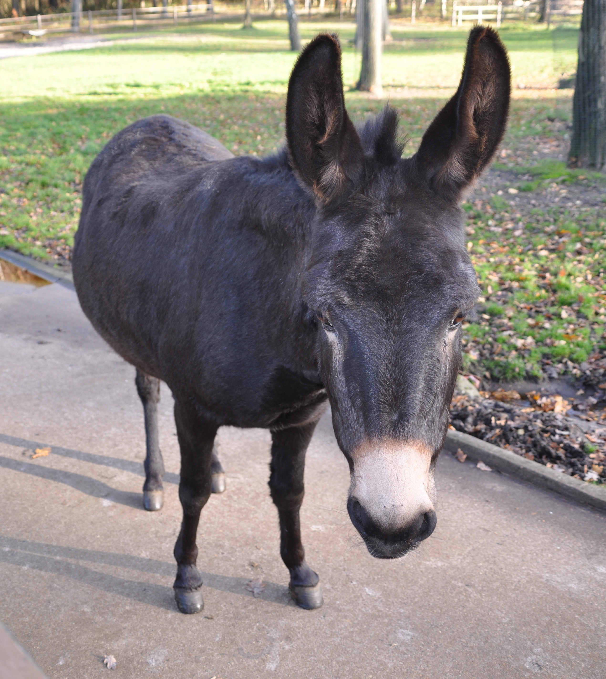 Poitou Donkey (Equus asinus asinus) in the Lüneburg Heath wildlife park, Germany.